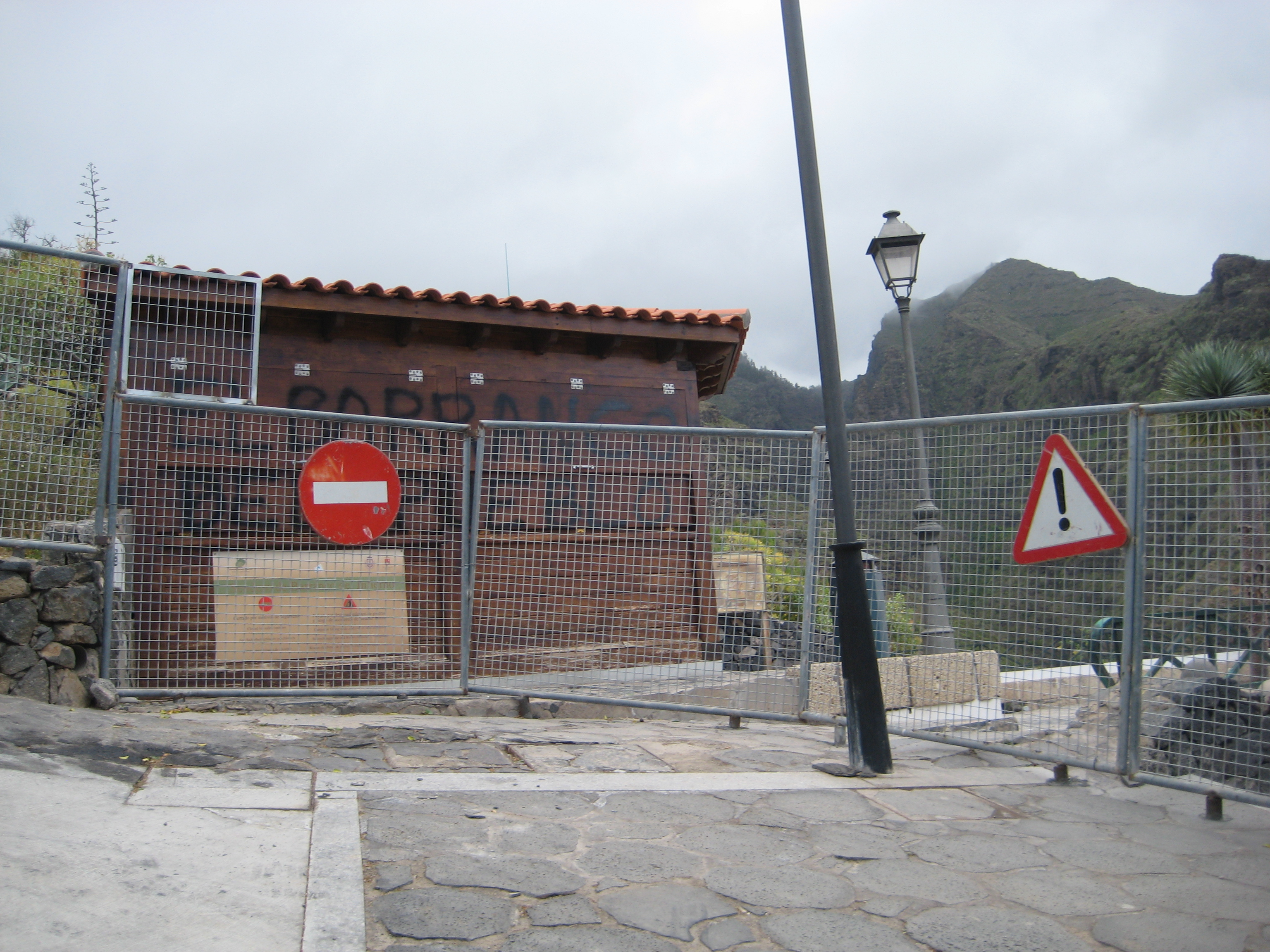 Fence at the entrance to the Barranco del Infierno